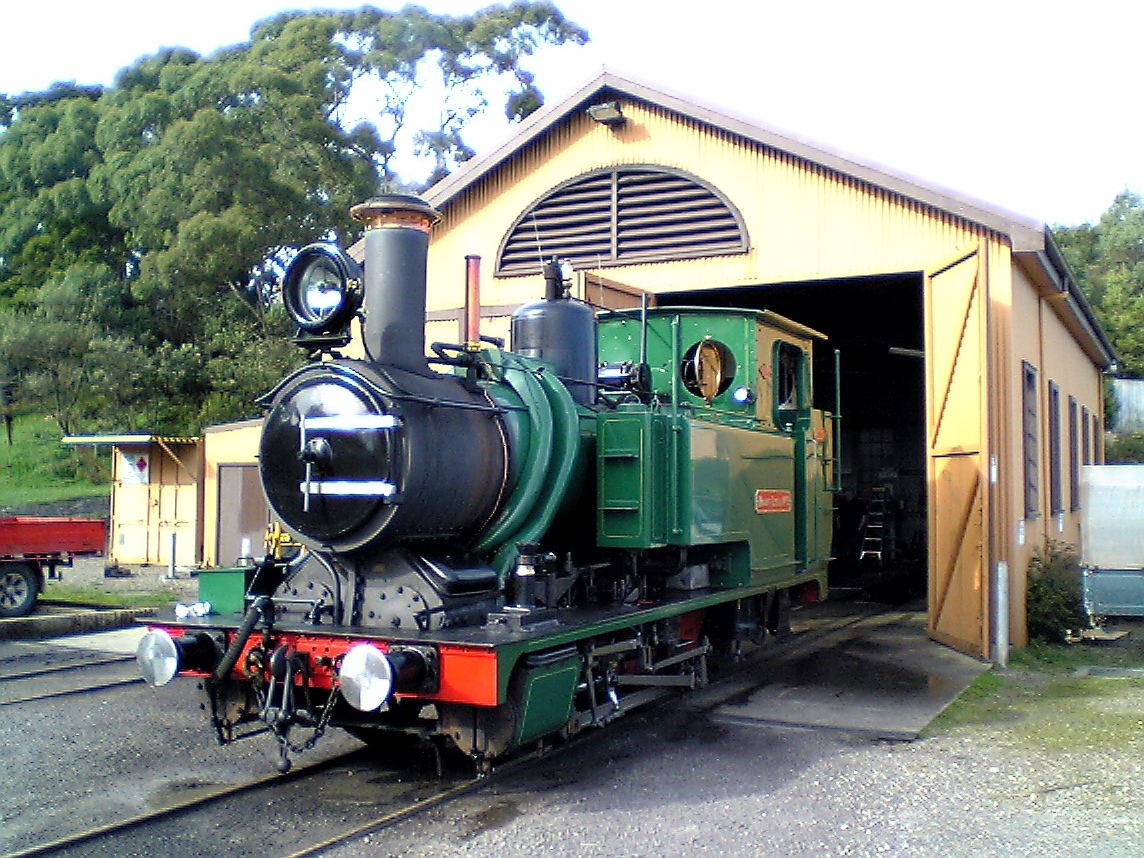 Abt Tank Engine Leaving the Shed at Strahan, Tasmania on the West Coast Wilderness Railway, Tasmania. The engine was made by Dübs and Company Locomotive Works in 1898 (No 3730).